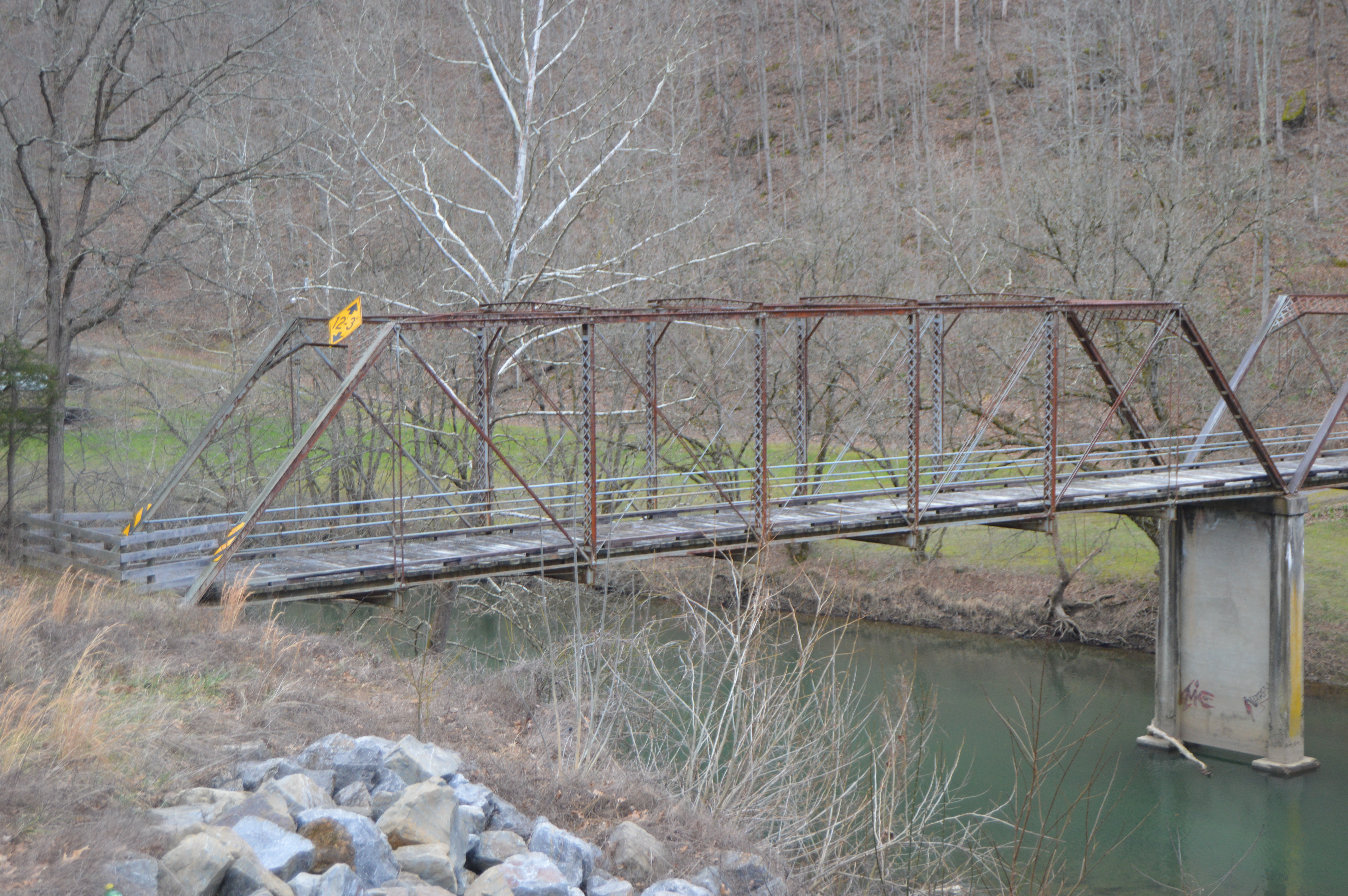 Western side of the northern span of the Blackford Bridge (getting a comprehensive photo of the bridge was impossible from this location), which formerly carried Chestnut Road over the Clinch River west of Rosedale in Russell County, Virginia, United States. Built in 1889, it is listed on the National Register of Historic Places.